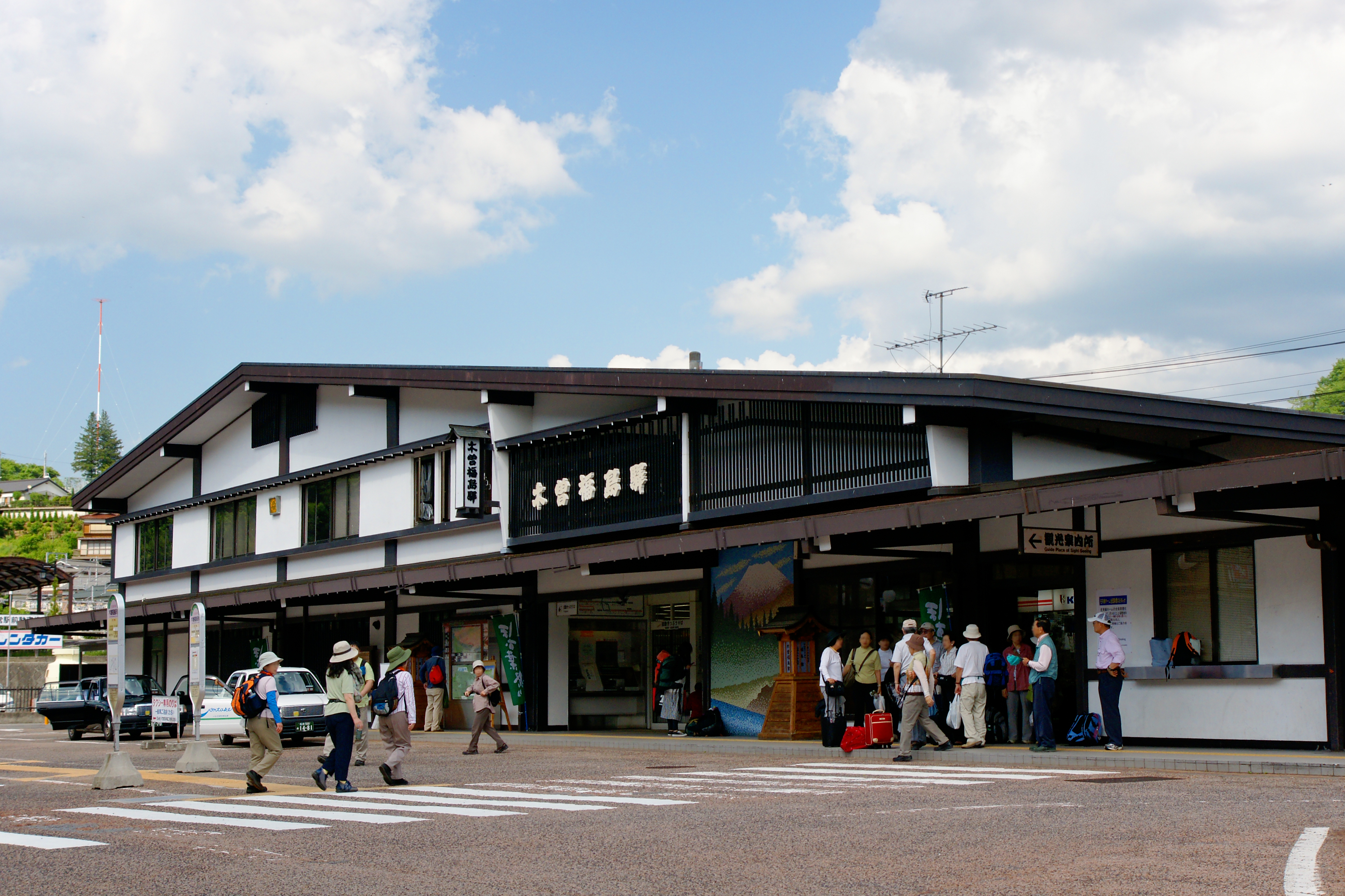 Kiso-fukushima Station, Kiso, Nagano prefecture, Japan